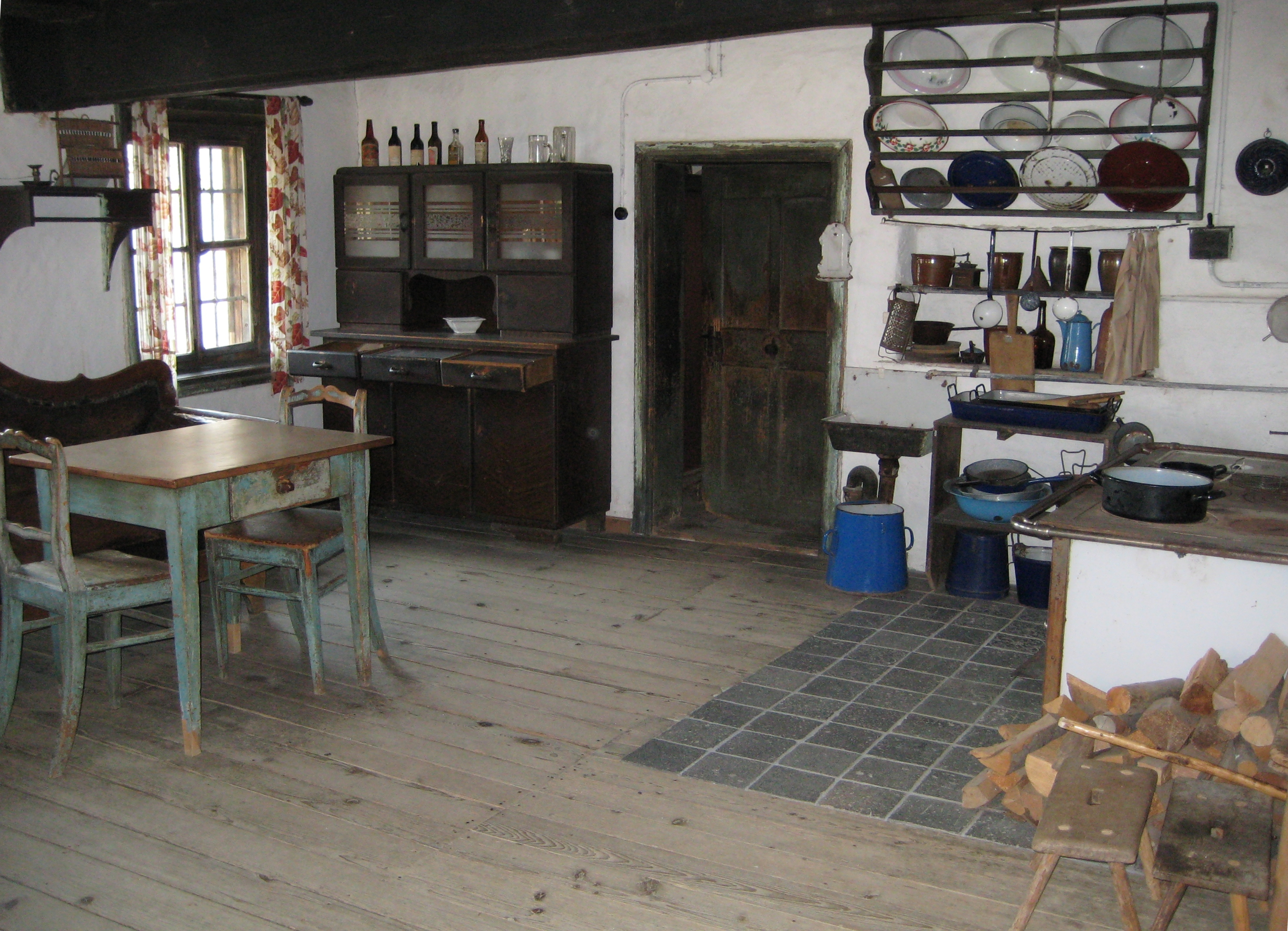 Country life museum Finsterau, Bavarian Forest